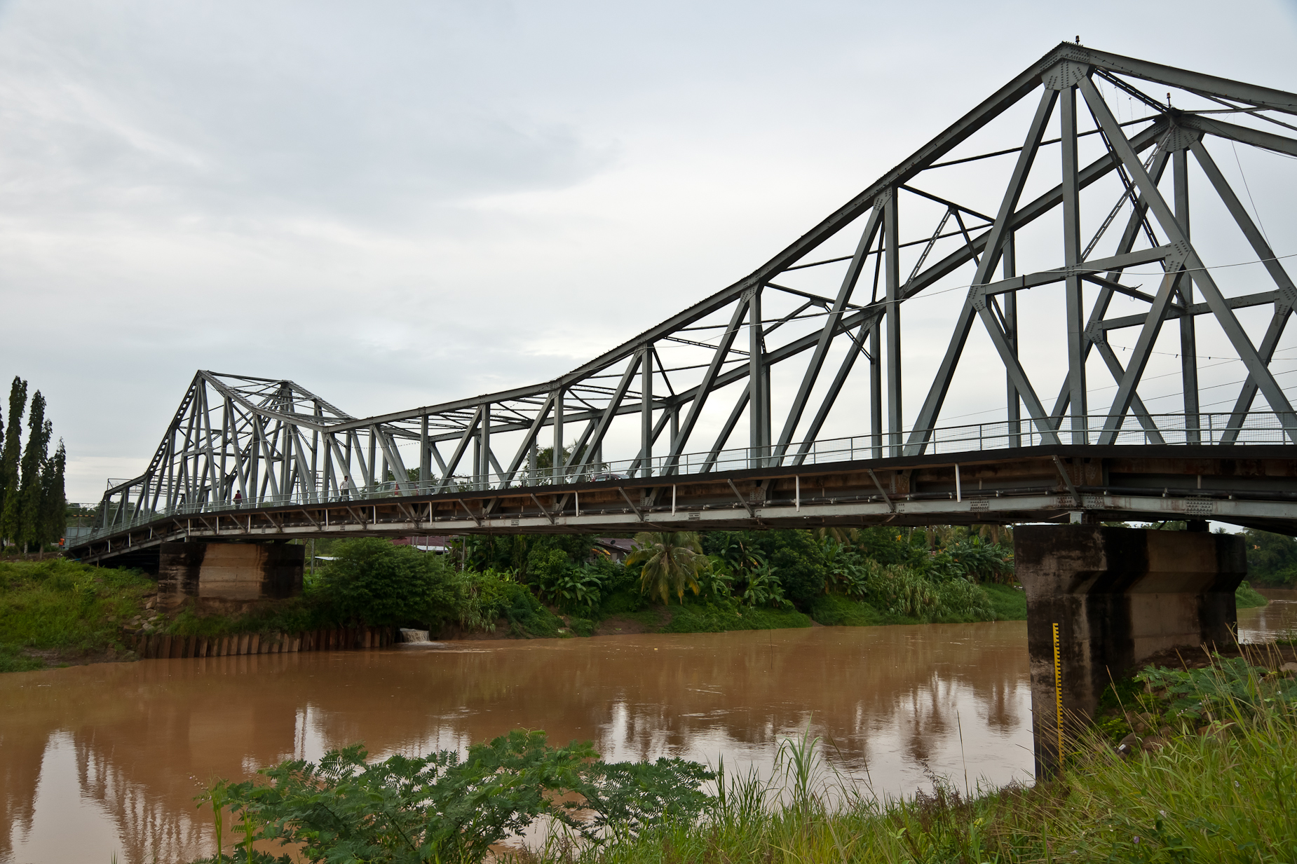 Beaufort, Sabah, Malaysia: Bridge over Sungai Padas (Padas River) in Beaufort